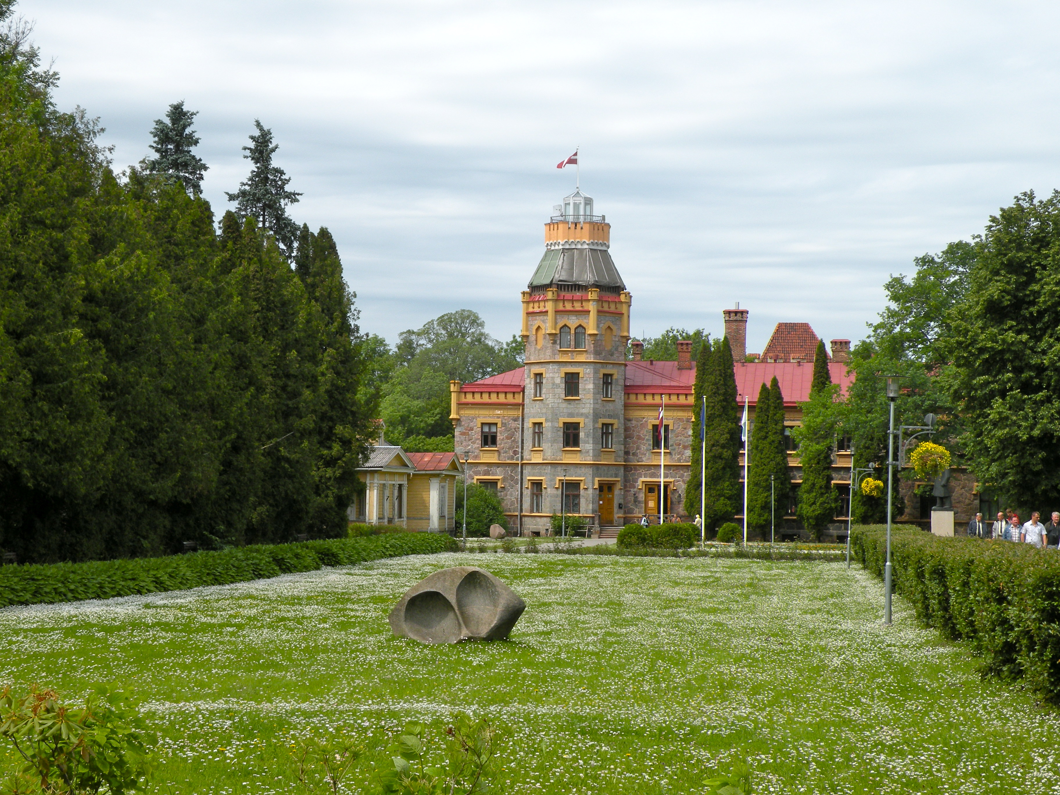 The main building of the Sigulda manor (in Latvia) is built in historicistic style at the beginning of the 20th century